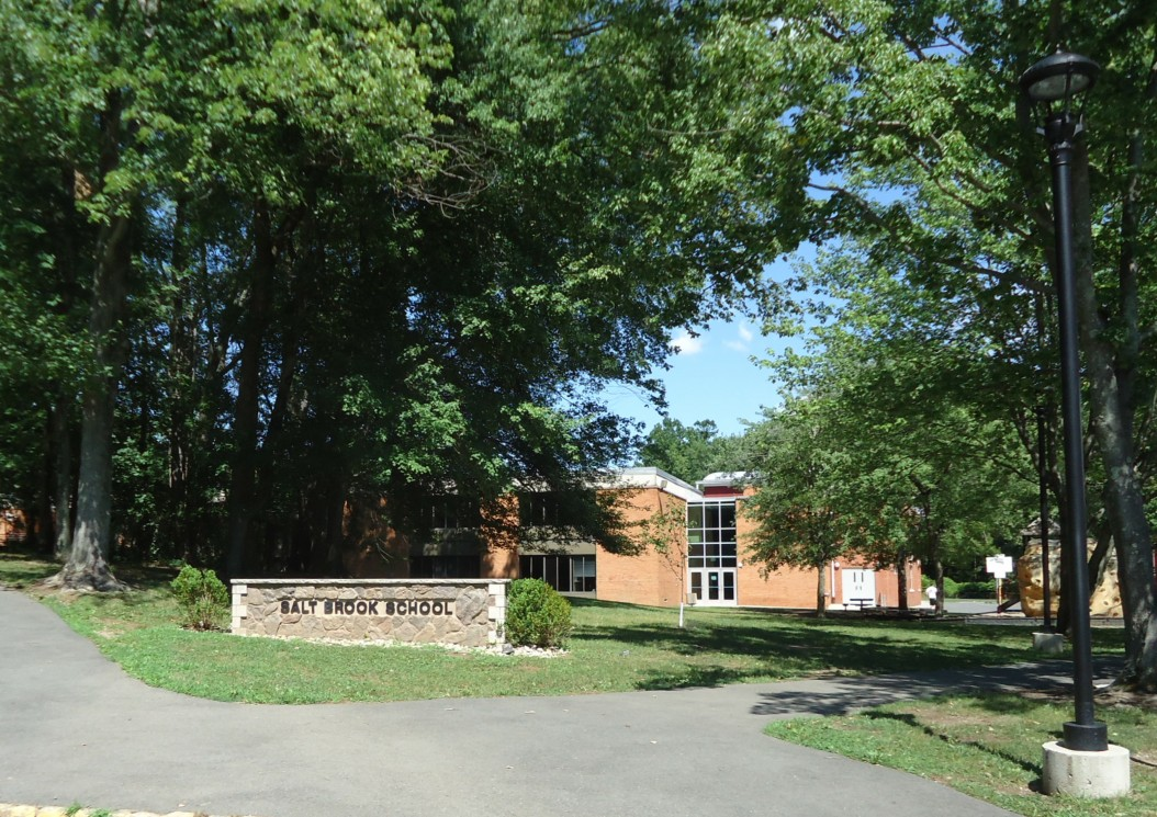 Elementary school with lamppost. New Providence, New Jersey, is a borough in Union County and about 40 minutes west of Manhattan